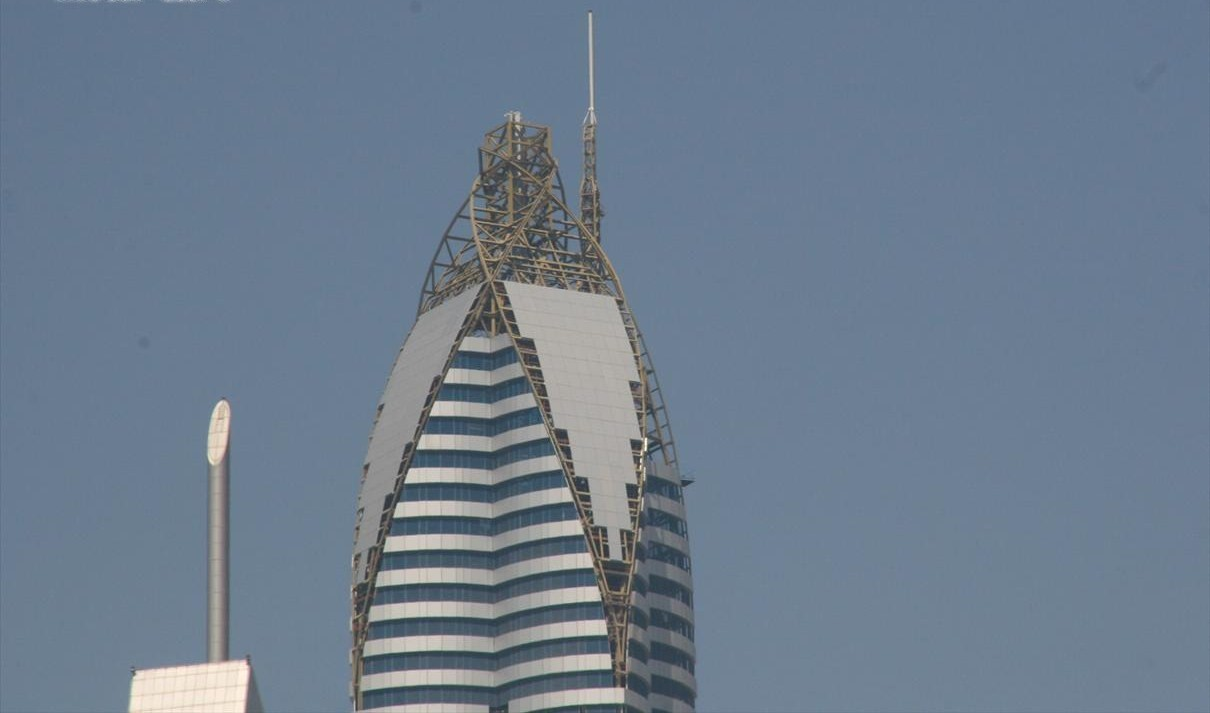 This is a photo showing the construction of the spire of the Rose Rotana Tower located along Sheikh Zayed Road in Dubai, United Arab Emirates on 25 February 2007.